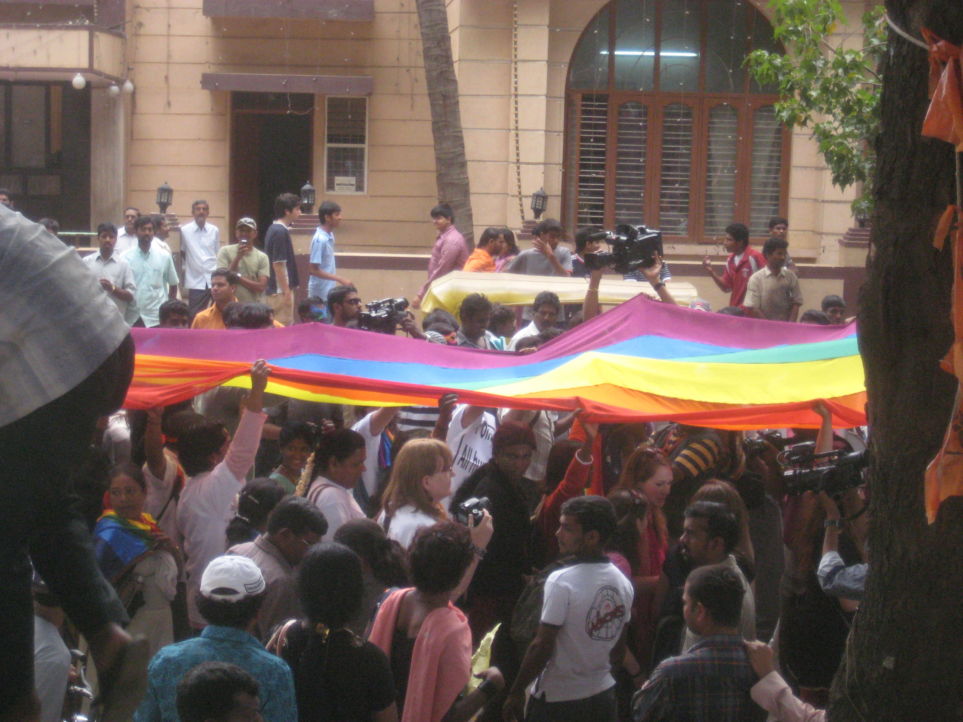 Bengalore, India celebrates its second annual gay pride parade, and I came to support and take photos. There was a crowd of perhaps 1000 (and I'd guess that maybe 5% were foreigners). There was a police escort, and I didn't notice any violence. Nonetheless, Indian culture can be conservative with respect to gay rights, and so many participants chose to wear masks.